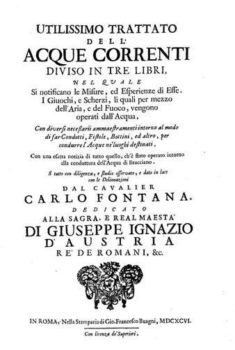 Title page